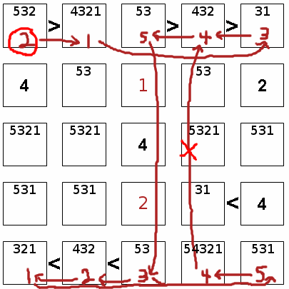 Based on Futoshiki1.png (GFDL, from Wikipedia) Second step to solve the puzzle.